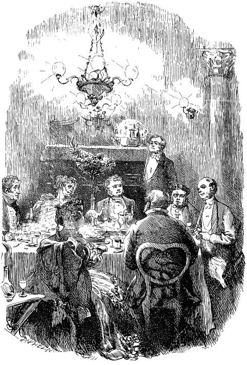 The handsomely furnished Sackville Street, Piccadilly, townhouse of Sophronia and Alfred Lammle